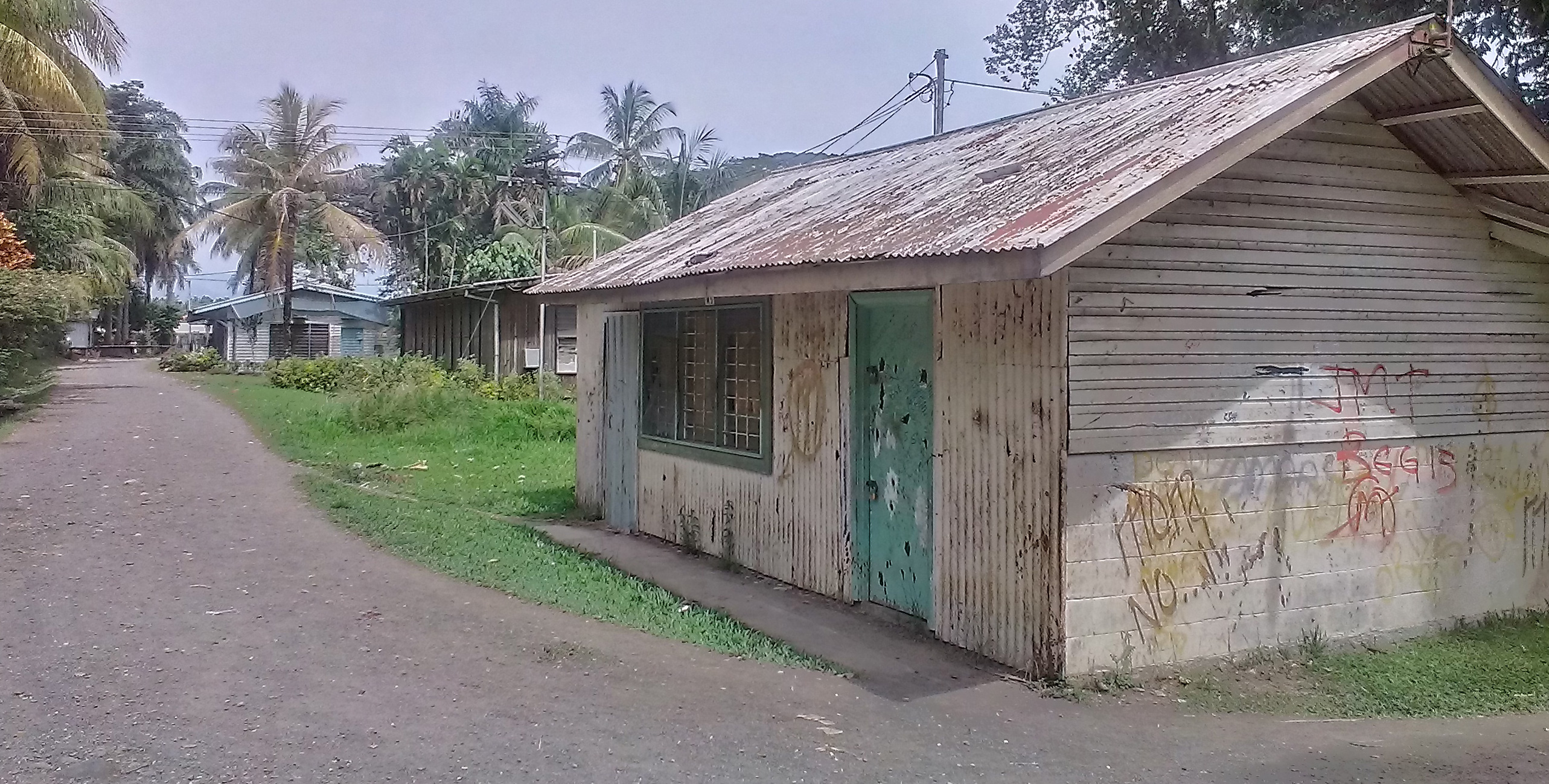 Photo of the main office at Malahang Mission Station, Lae, Morobe Province facing the entrance to Busu Road and the old Malahang airfield. Photo taken 30 January 2014